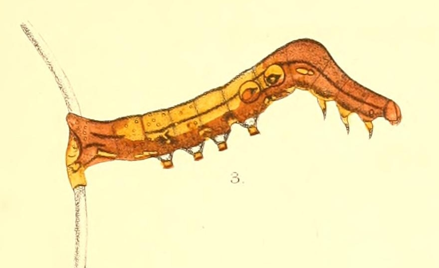 Maenas salaminia larva Moore, Frederic 1880 On the genera and species of the Lepidopterous Subfamily Ophiderinae inhabiting the Indian Region. Zoological Society of London